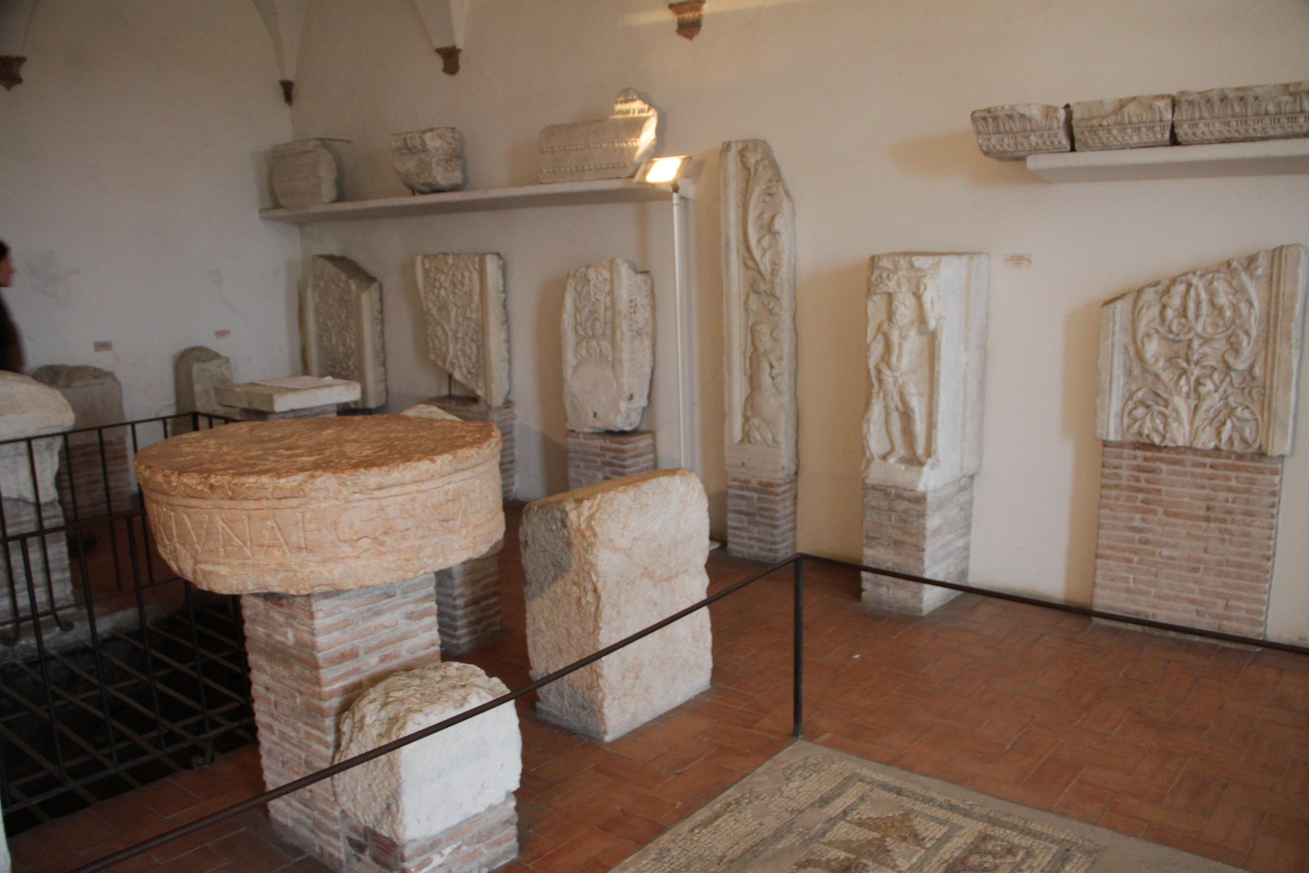 Museo archeologico al teatro romano (Verona)